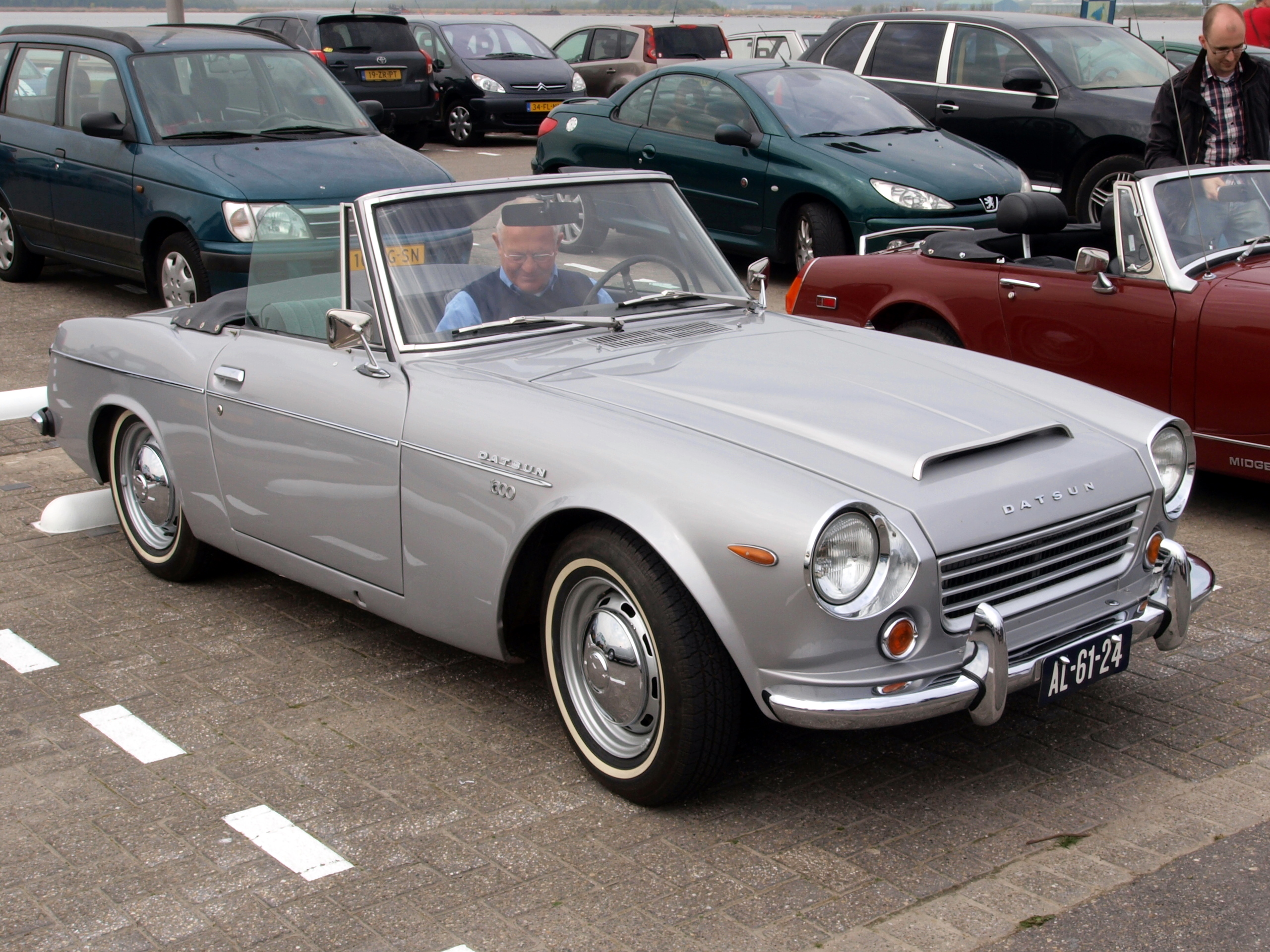 Cars and motorcycles photographed at the Voorschotense Oldtimer Vereniging Show, Valkenburgse meer, The Netherlands.